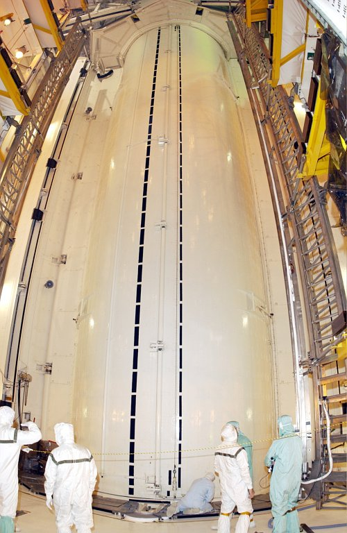 The payload canister is ready to be opened in the Payload Changeout Room at the pad. Inside is the S1 Integrated Truss Structure, primary payload on mission STS-112 aboard Space Shuttle Atlantis. The first starboard truss segment, the S1 will be attached to the Central truss segment, the S0 Truss, on the International Space Station during the mission.